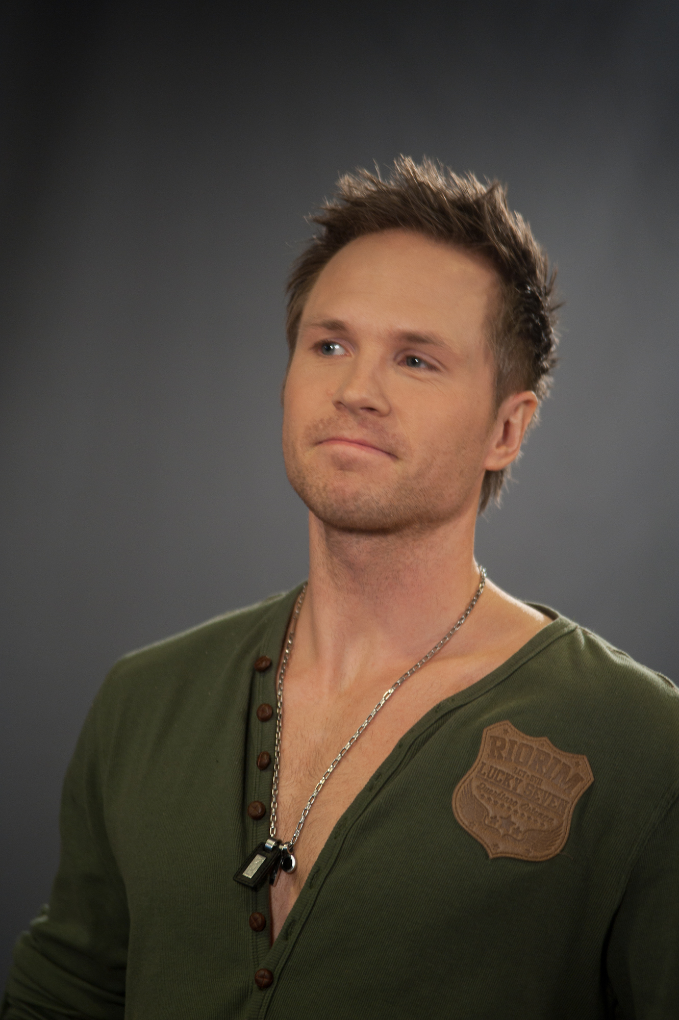 Anders Fernette 2010 at a press conference for Melodifestivalen 2011